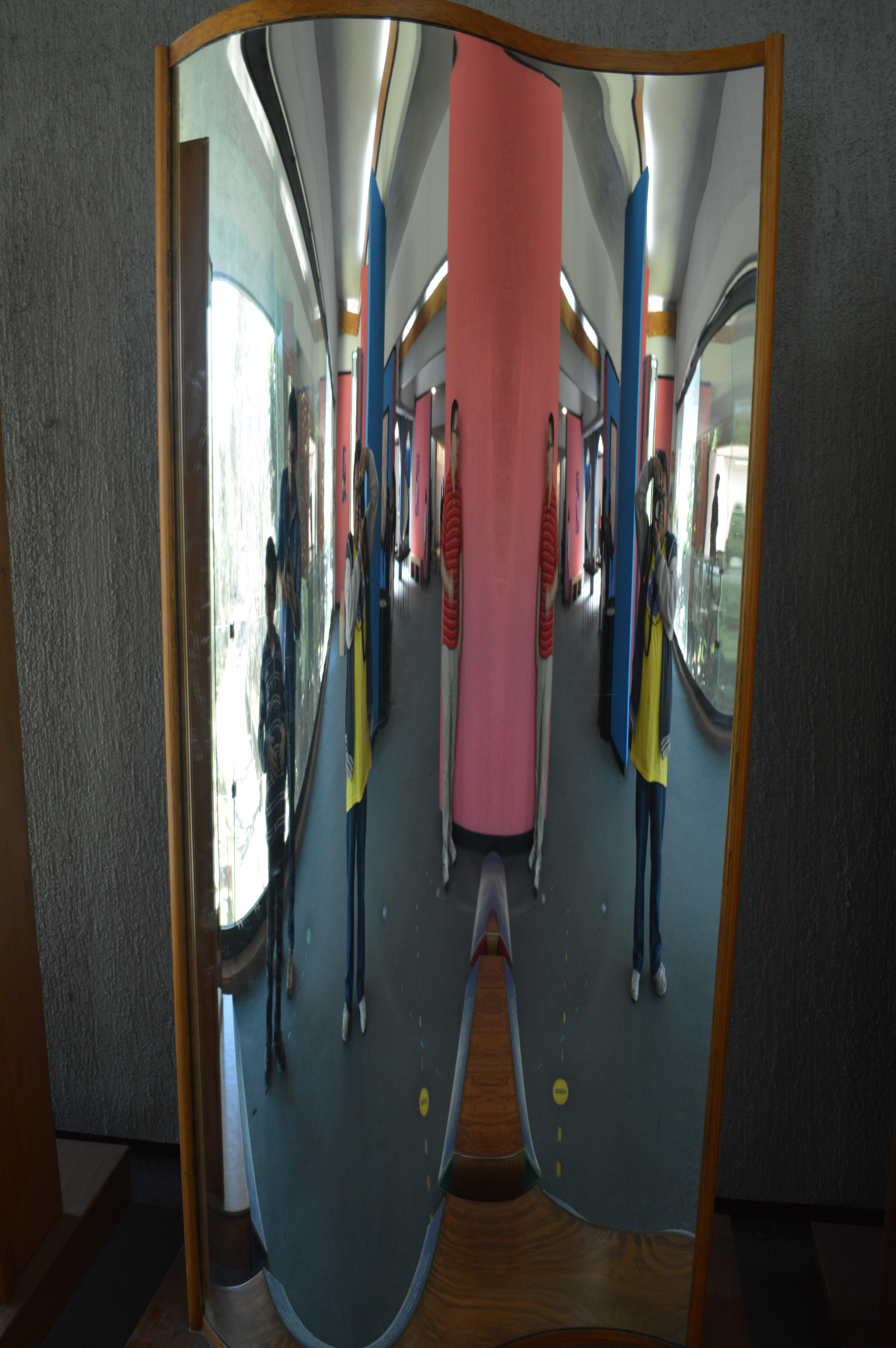 AlejandroLinaresGarcia taking pictures of himself in front of curved mirrors part of the mathematics section of the Universum museum in Ciudad Universitaria in Mexico City